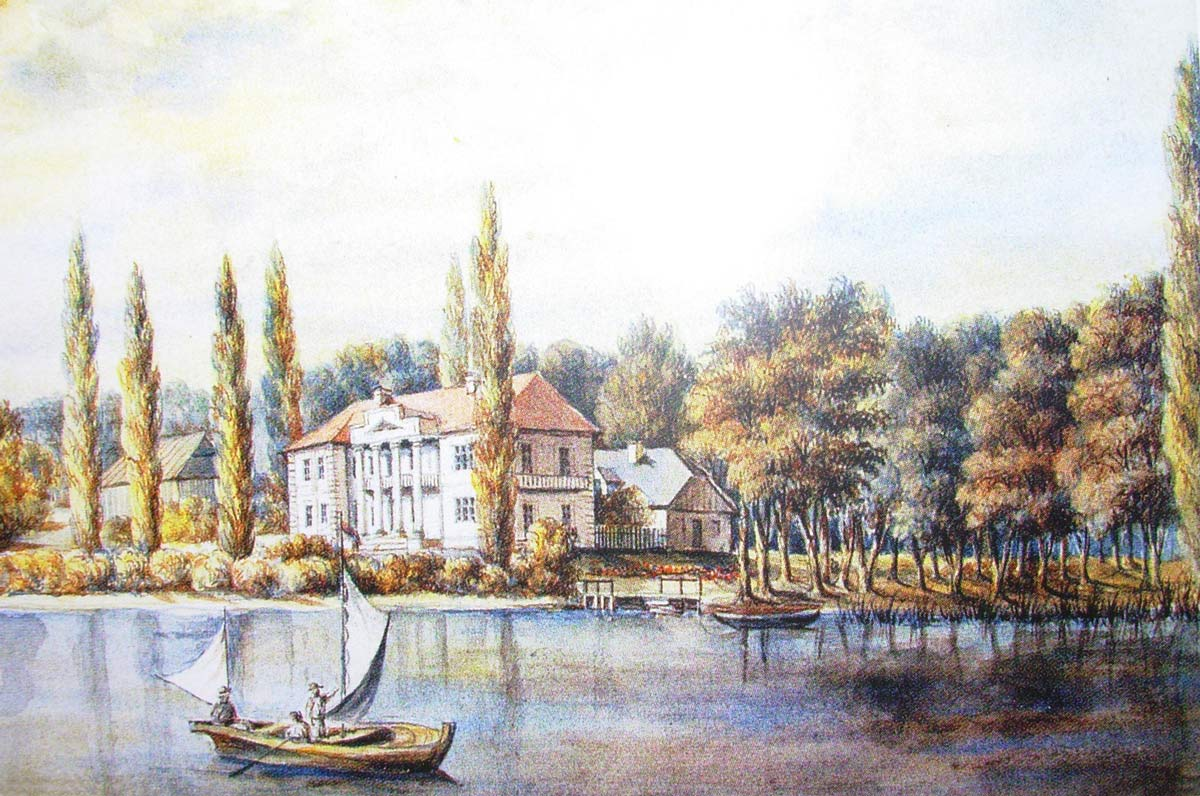 Manor of Puslovski family.